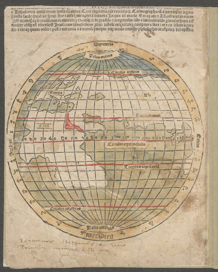 Map of the known world from Amerigo Vespucci: Epistola Albericij. De novo mundo. Rostock: Hermann barckhusen 1505, UB Rostock (Signatur UB Rostock: SON B 2)